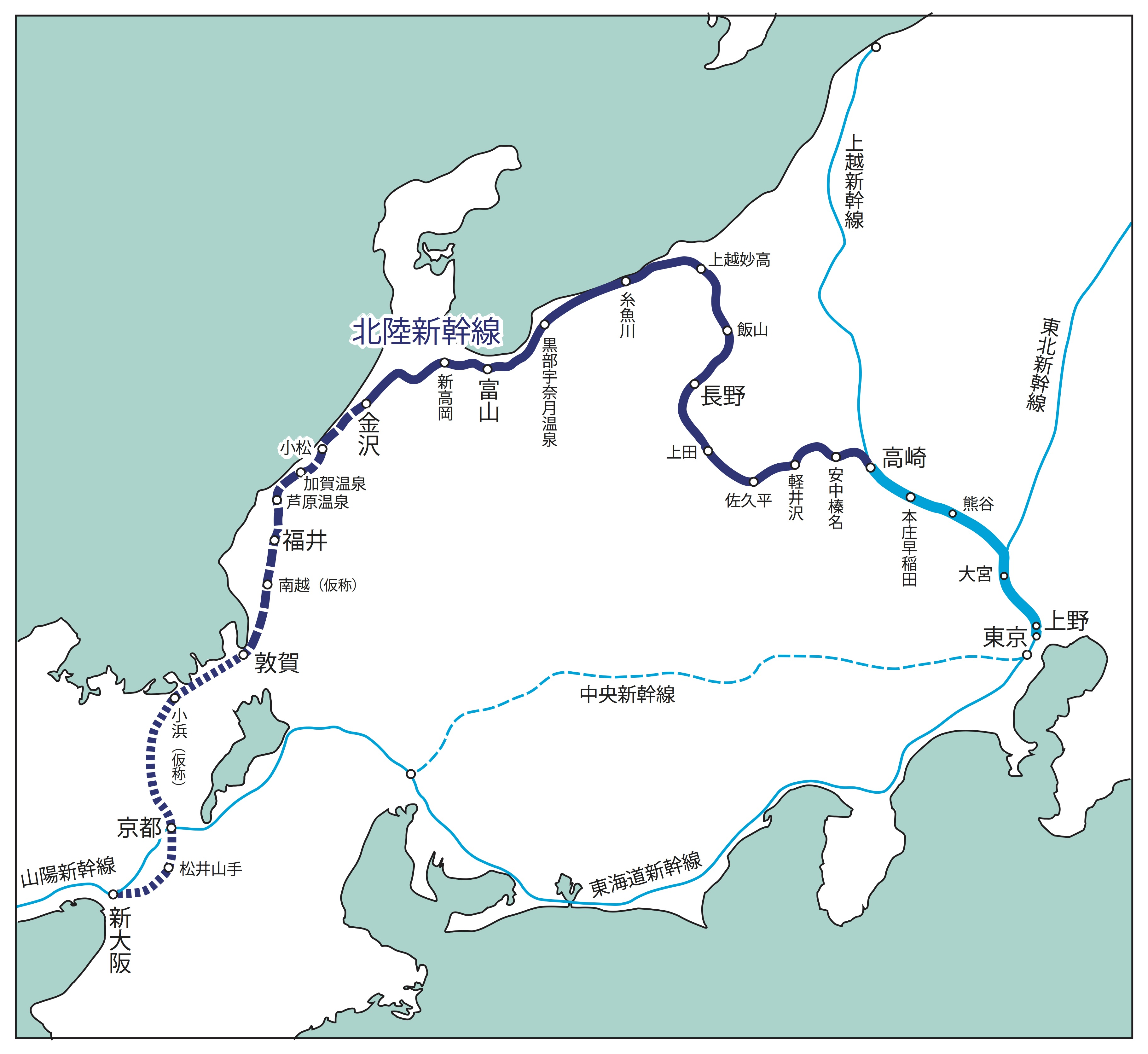 Hokuriku Shinkansen